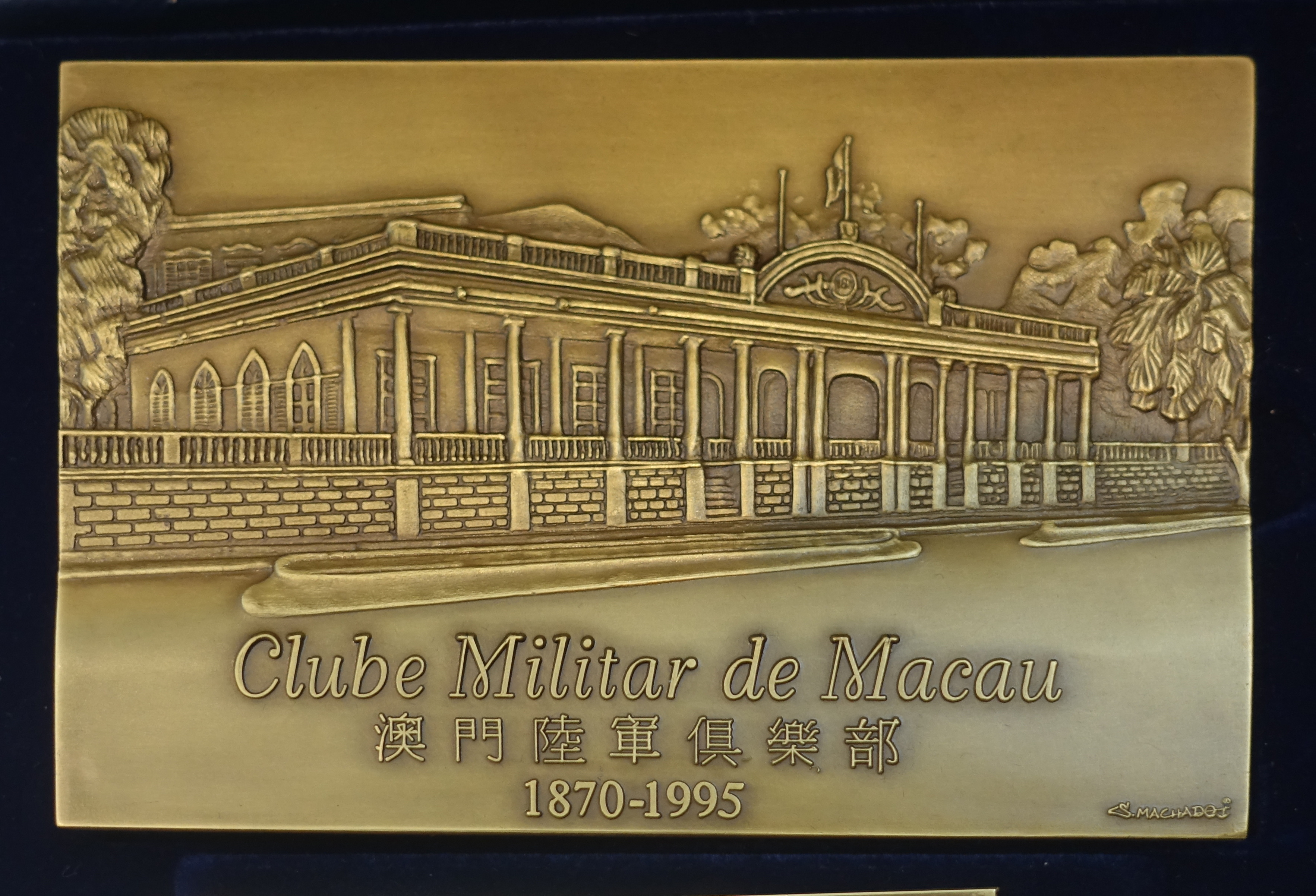 Casa do Careto, Podence, Portugal.